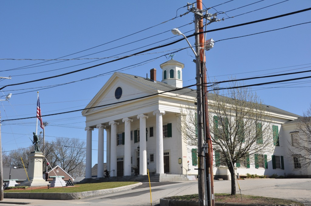 Stetson Hall, once the town hall of Randolph, Massachusetts.